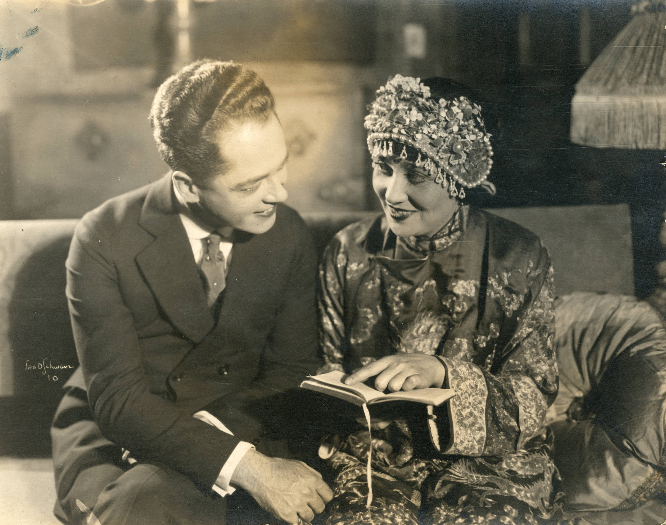 Still from the American drama film East Is West (1922). Subjects: motion pictures, actresses, actors